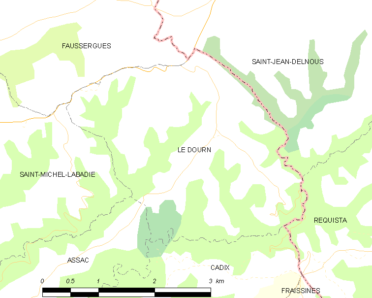 Map of French municipality Le Dourn